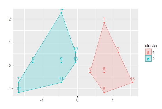 cluster 1